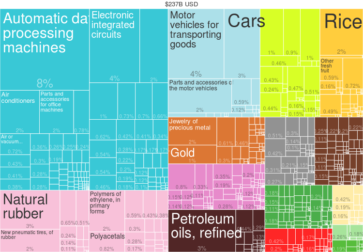 2014 Thailand Products Export Treemap